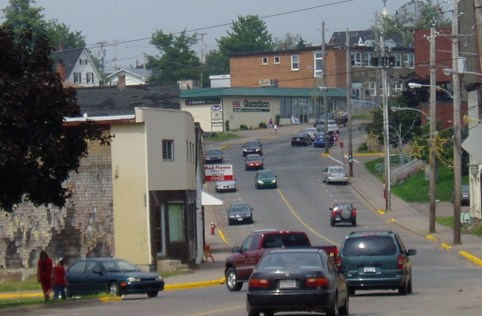 Main Street in Springhill, Nova Scotia. Taken by SimonP